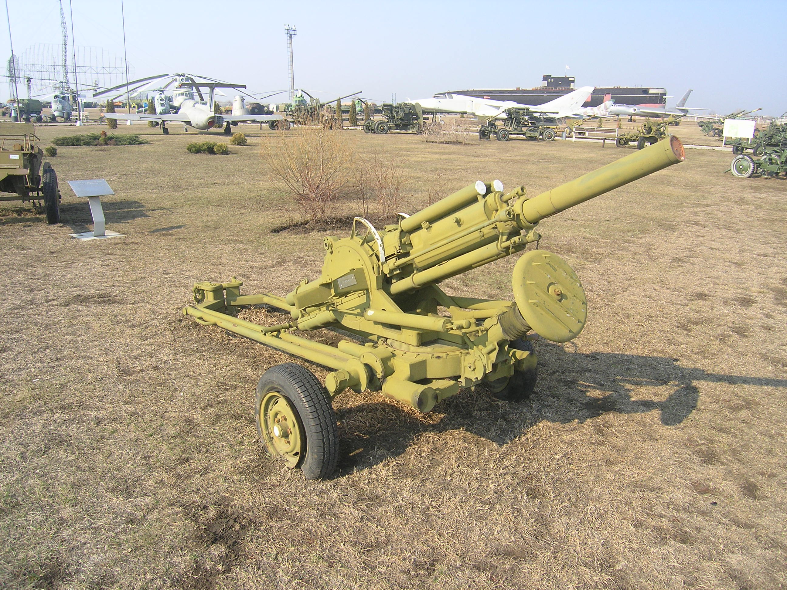 2B9 Vasilek mortar in Technical museum Togliatti